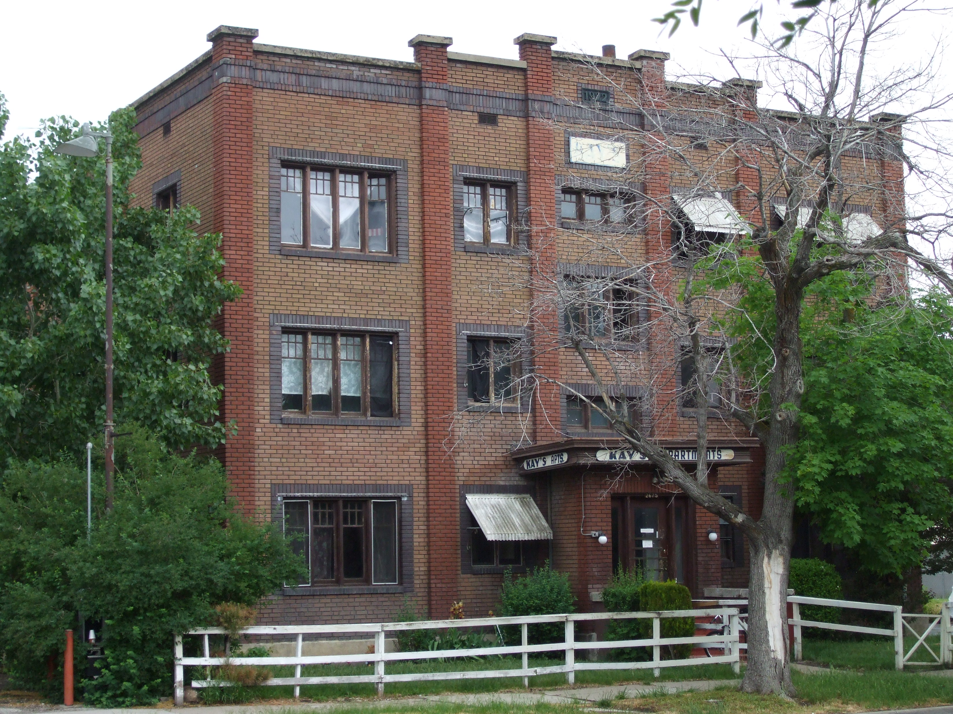 The Geffas Apartments, a historic building in Ogden, Utah, United States.